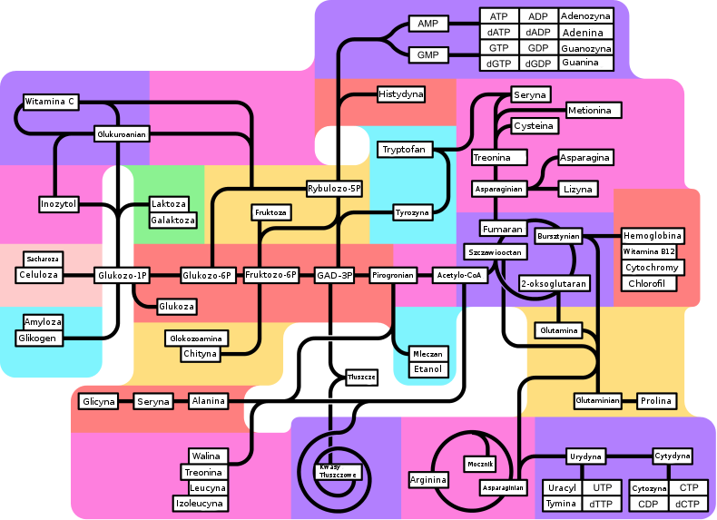 Metabolic pathway